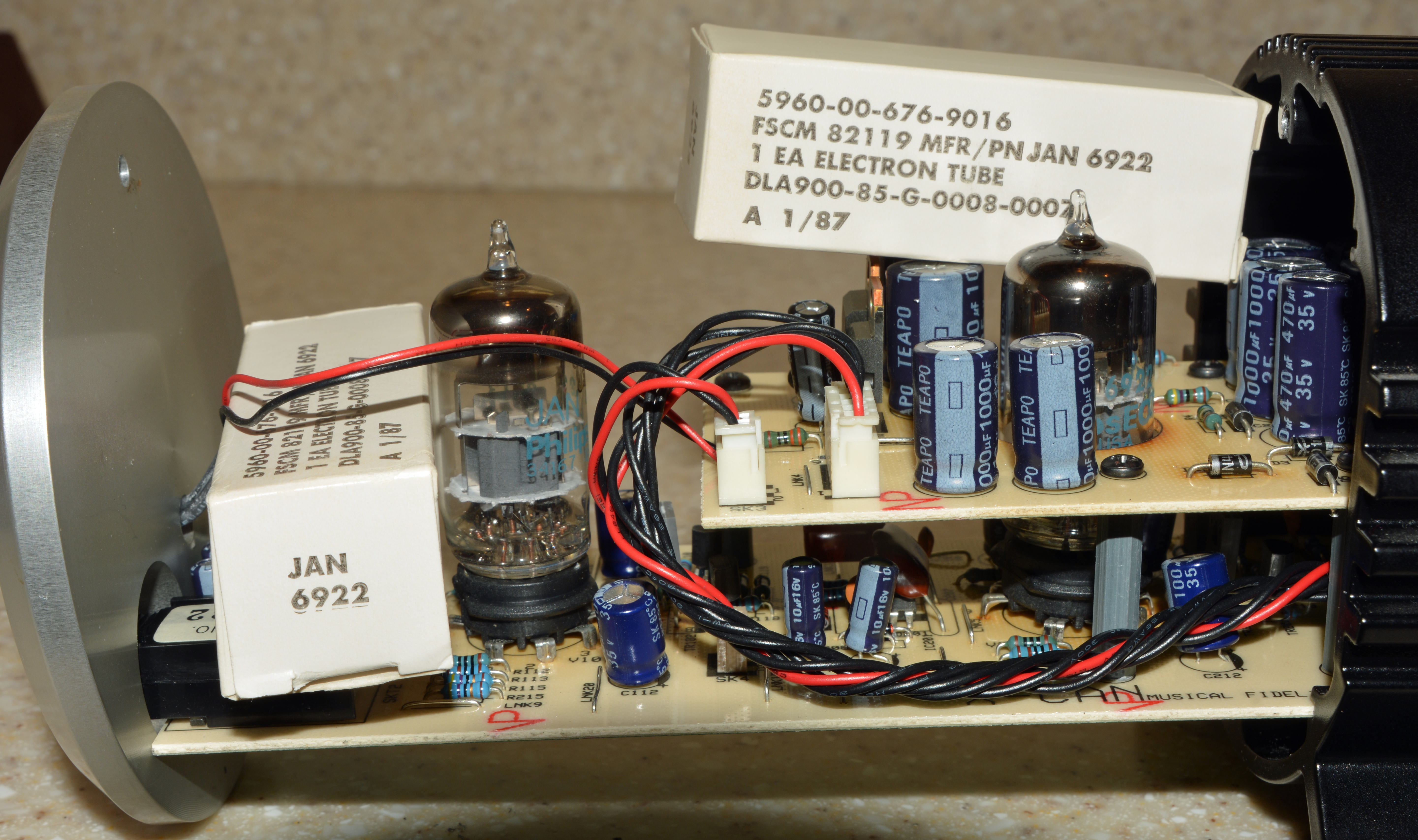 A Musical Fidelity X-Cans headphone amp using two Philips JAN 6922 vacuum tubes